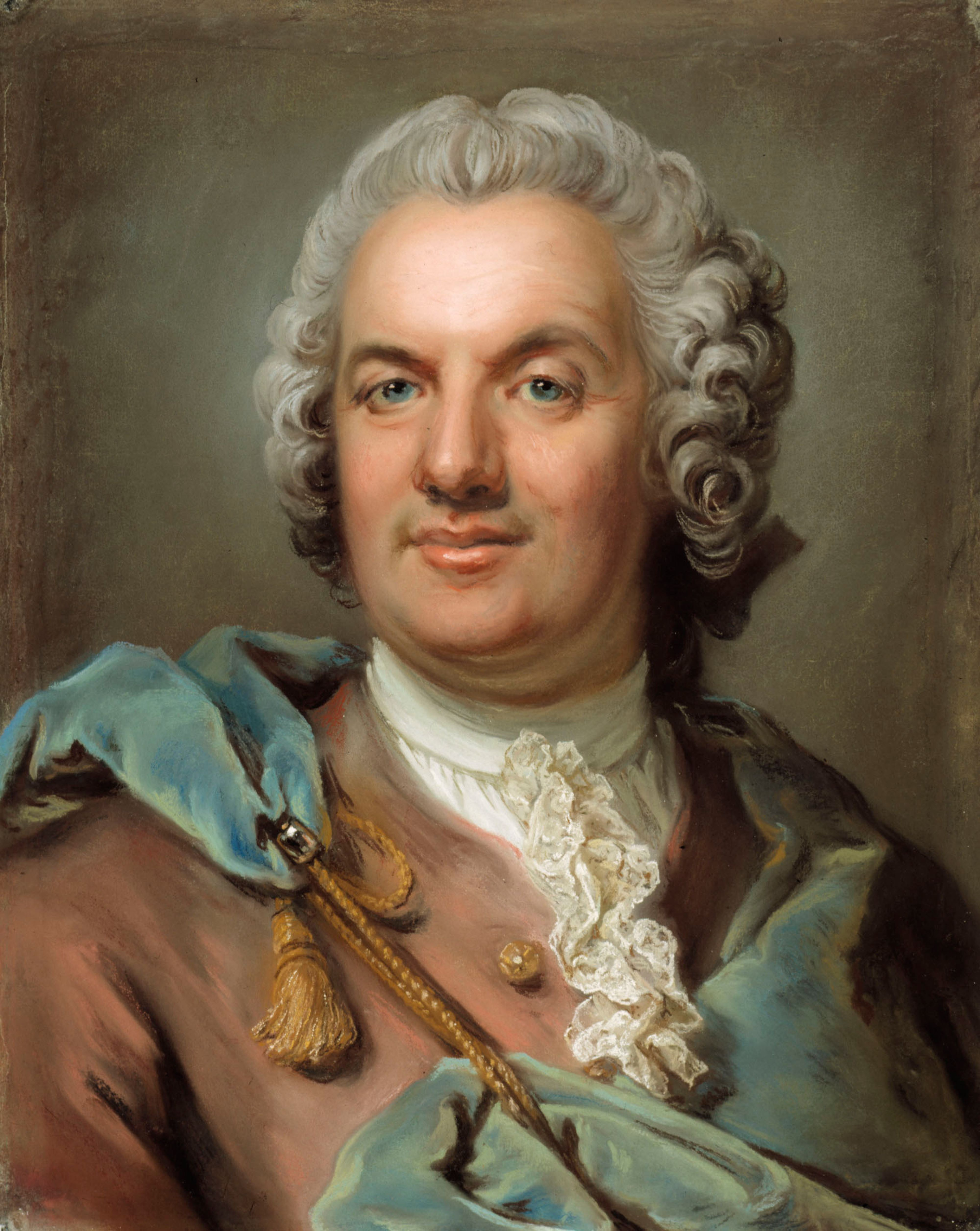 The philologist and Deputy Director Johan Ihre